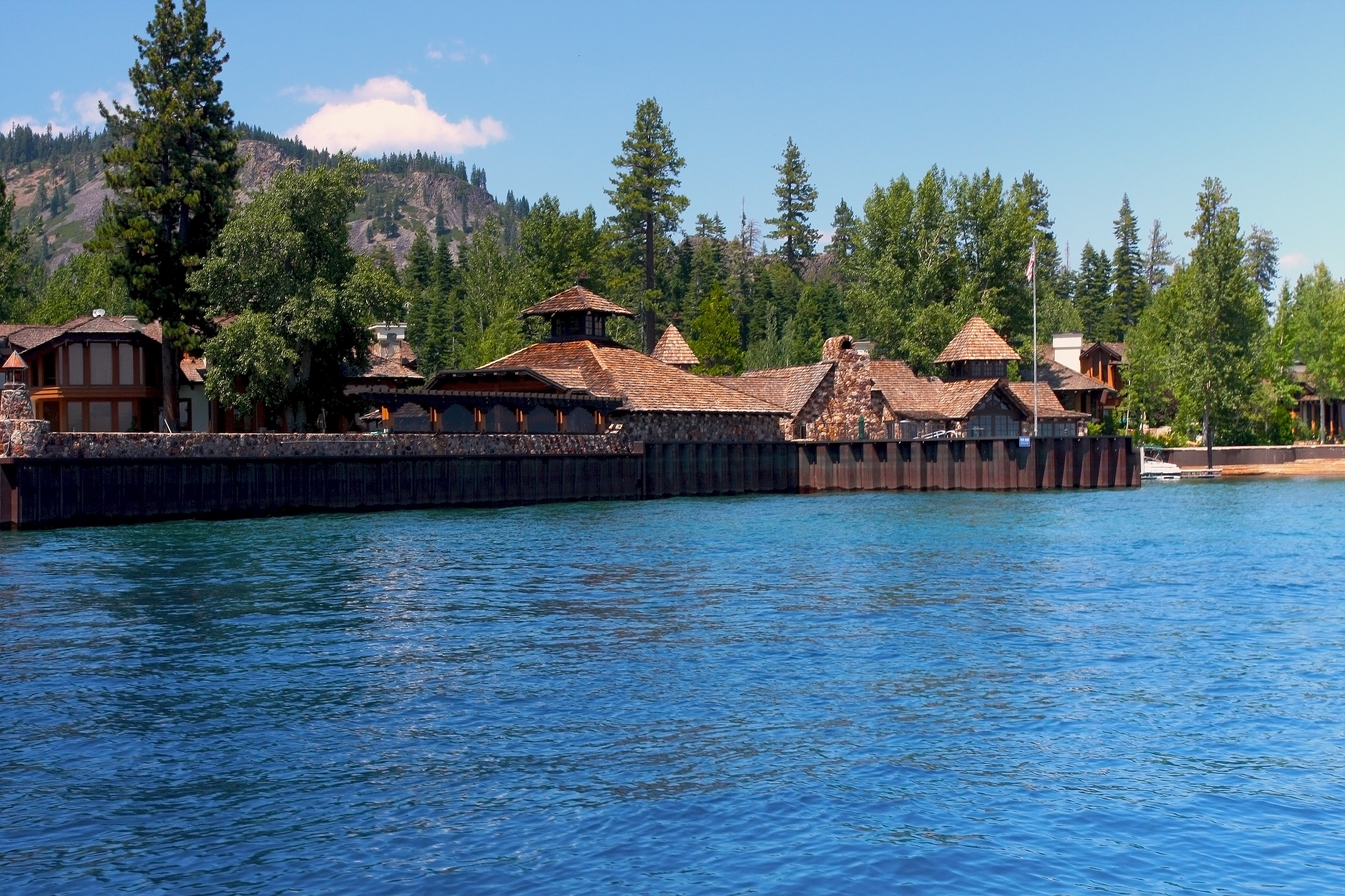 Taken in Pine Land, California